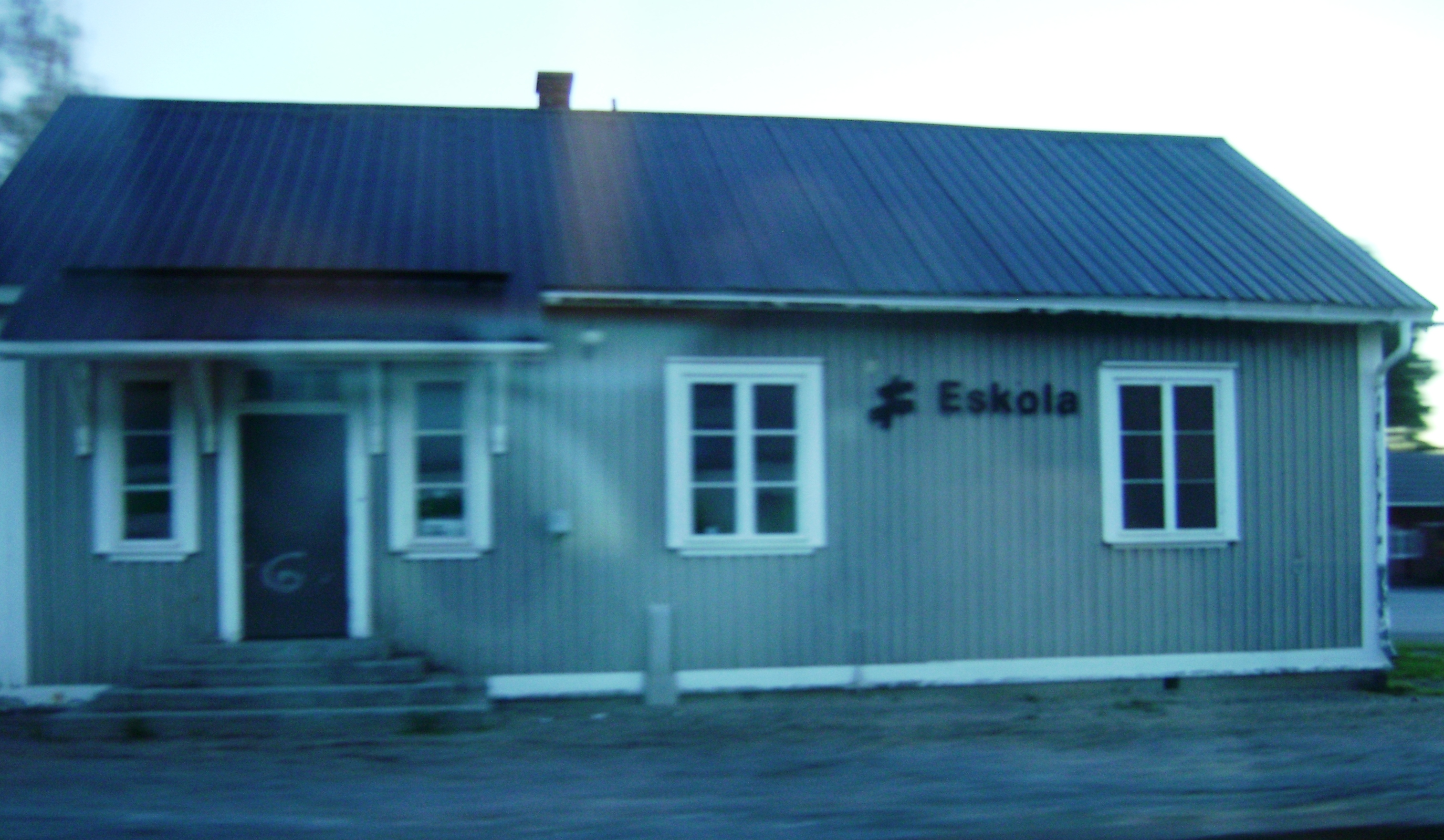 Eskola railway station in Kannus, Finland.